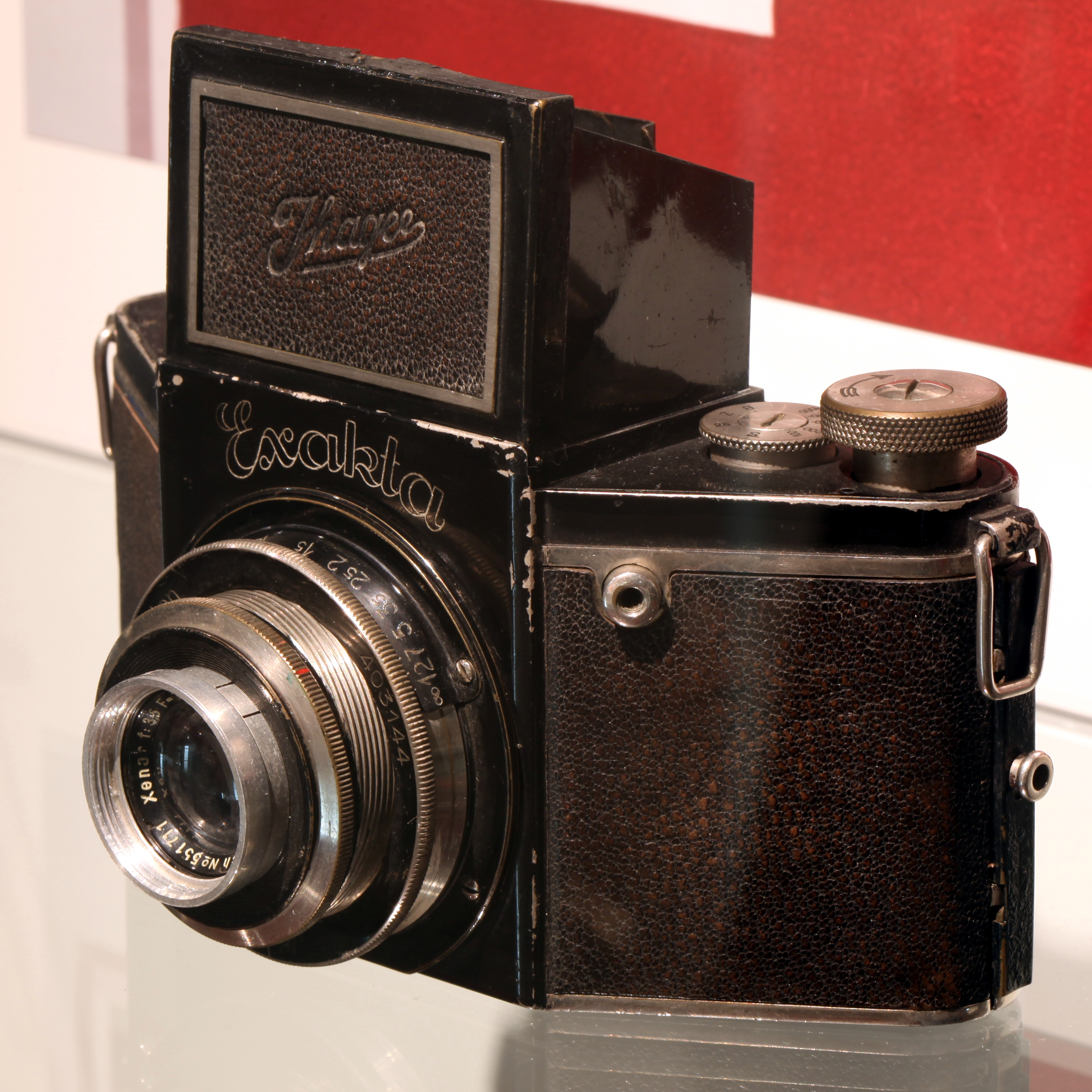 Exakta